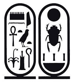 Cartouche that contains the hieroglyphic signs that render Tutankhamun's personal name with his usual epithet, "Tutankhamun, ruler of On of Upper Egypt [a name for Thebes]," and his throne name, "Nebkheperura". This image was copied from en. The original description was: This image is extracted from , an article called, "Howard Carter, and other archeologists who discovered King Tut, are blamed for much of the damage to his bodily remains," and is a direct transcription of ancient heiroglyphics.[1]